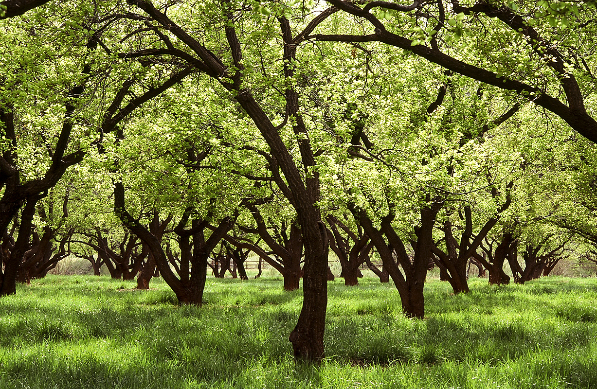 Orchard in full bloom, Fruita, Utah, USA. Fruita is a ghost town inside Capitol Reef National Park.